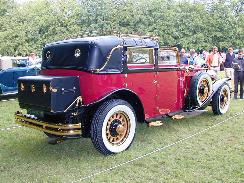 40 HP model powered by a 6616 cc 8-cylinder engine with sleeve-valves, made in Belgium by Minerva Motors SA; rear side view